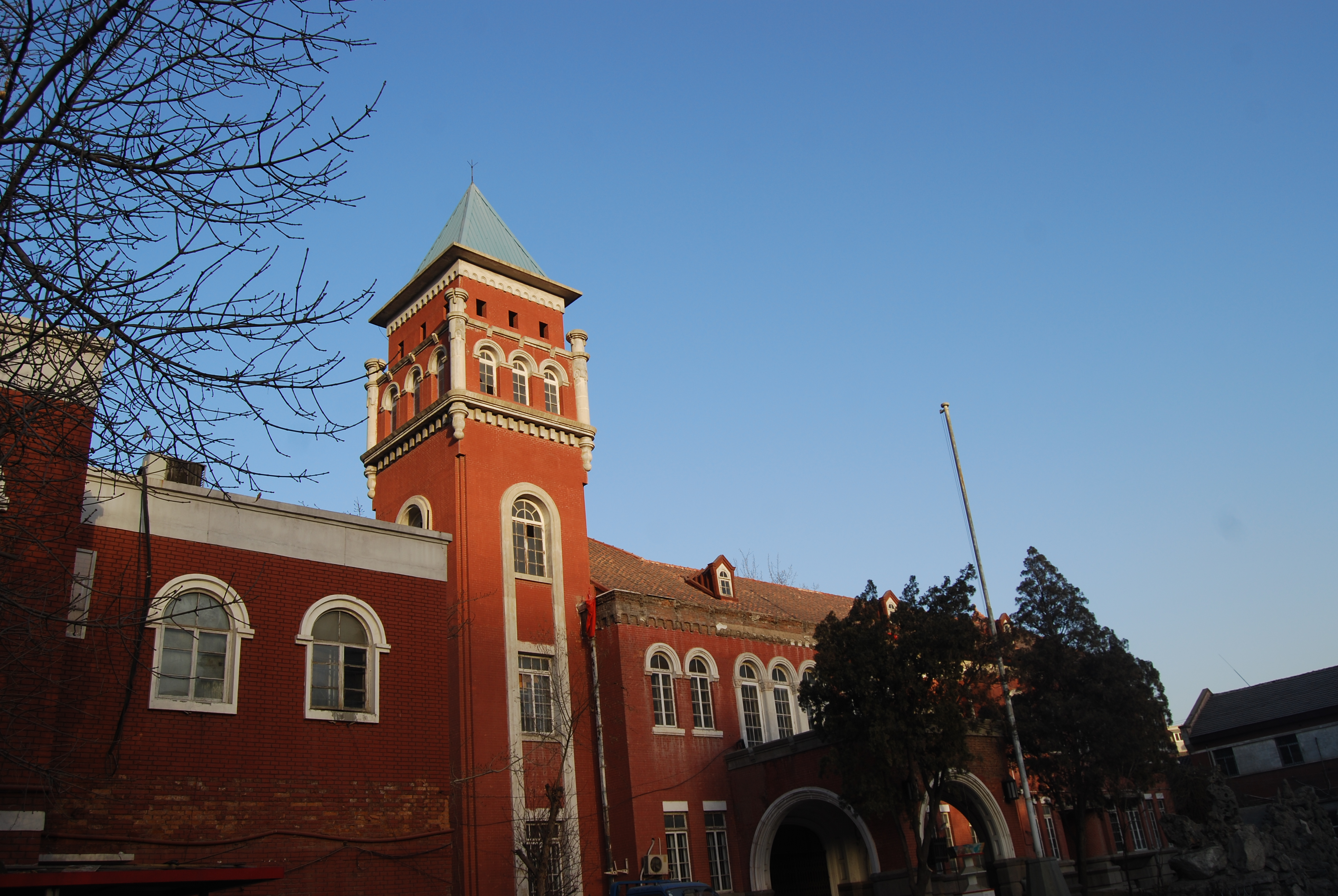 The Former Residence of Mr Zhang (Zhang Biao / 張彪, 1860–1927) in Anshan Dao No. 59, Heping District, Tianjin